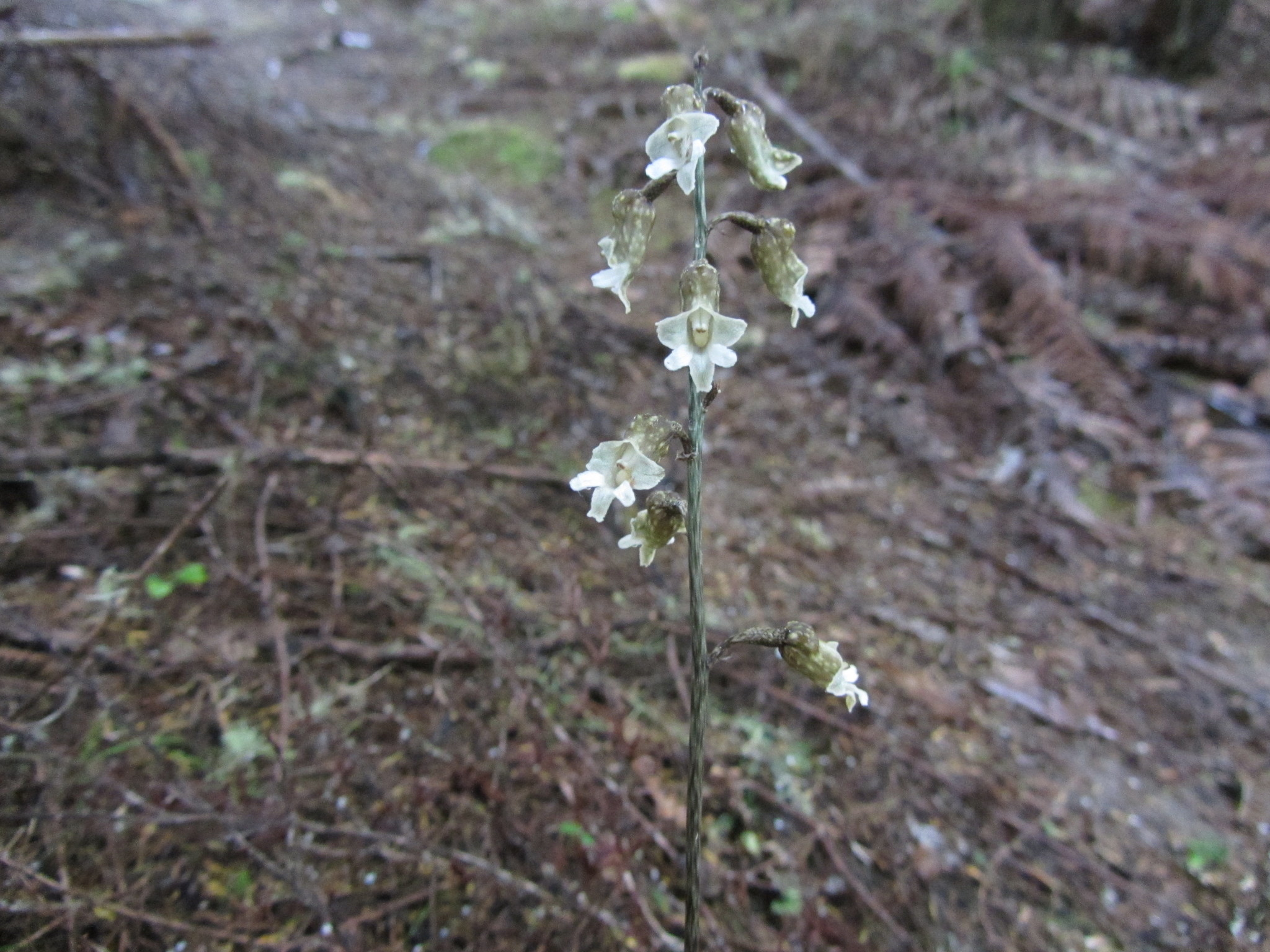 Gastrodia cooperae